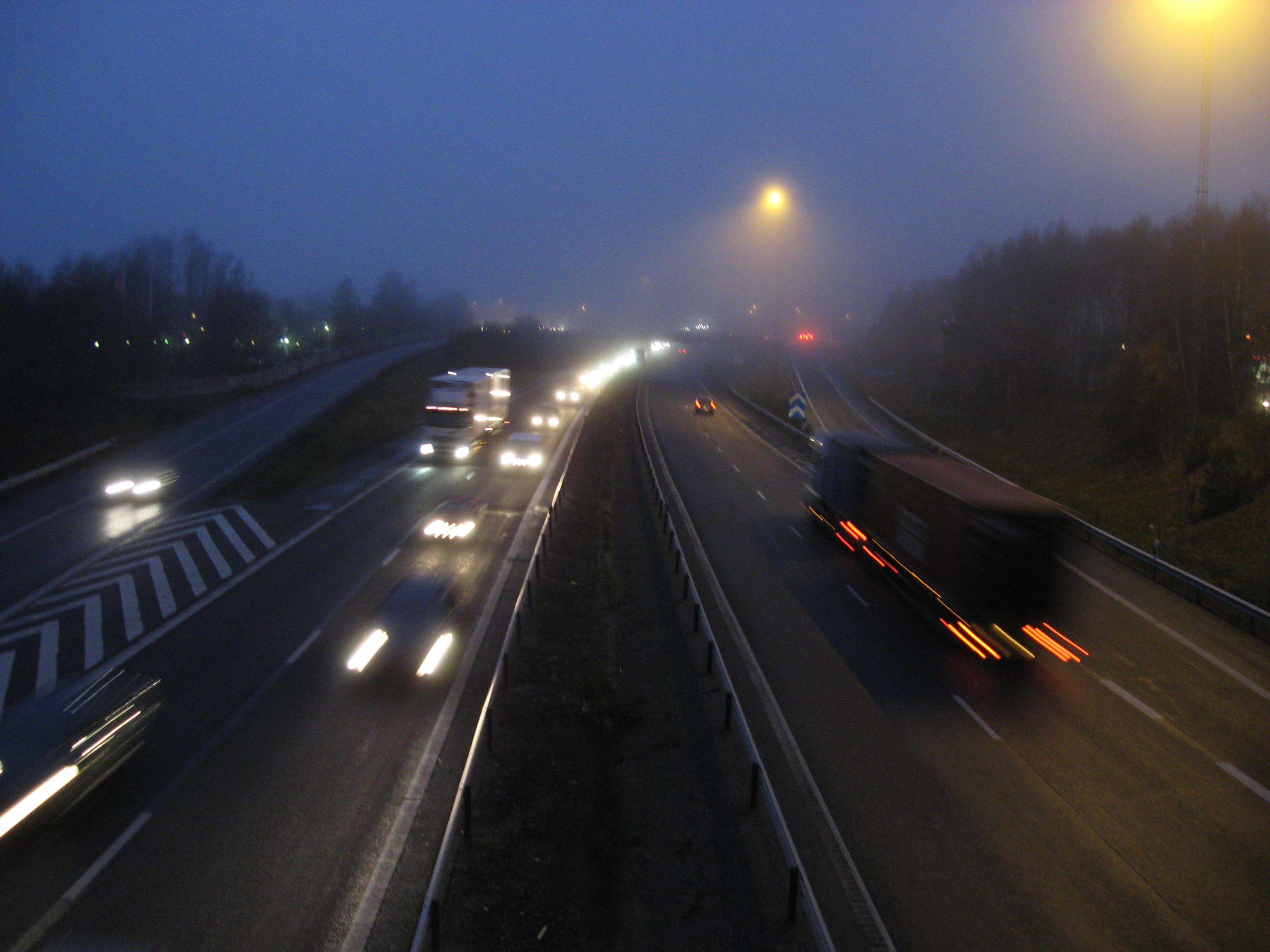 National Road 40 in Landvetter, Göteborg, Sweden.